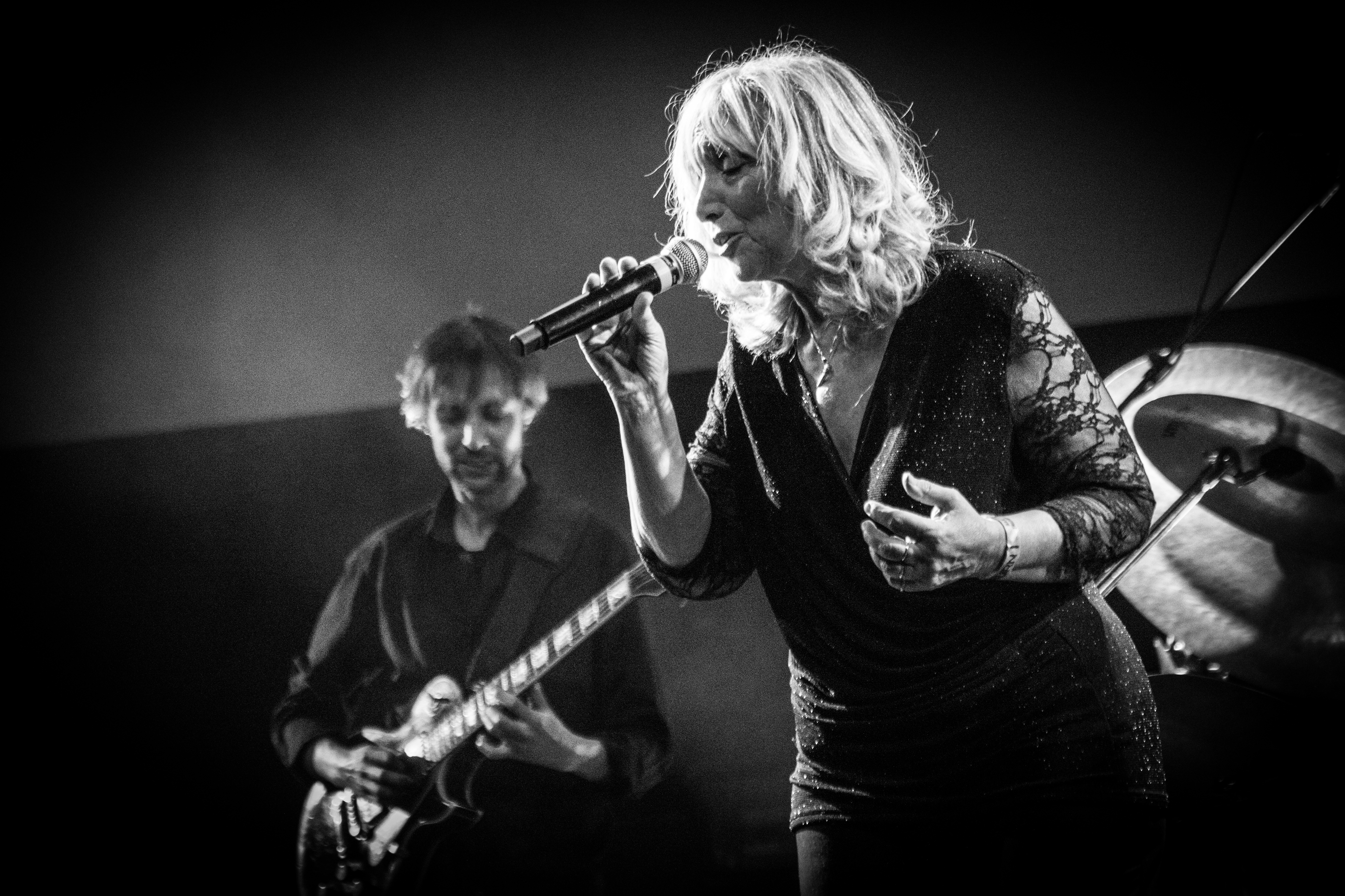 MAGMA live at Roadburn Festival, Tilburg, April 2017